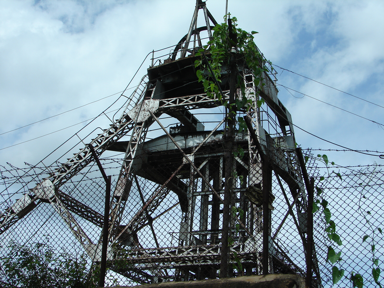 Champion Reef mine shaft at KGF. Mine shaft at Kolar Gold Fields.